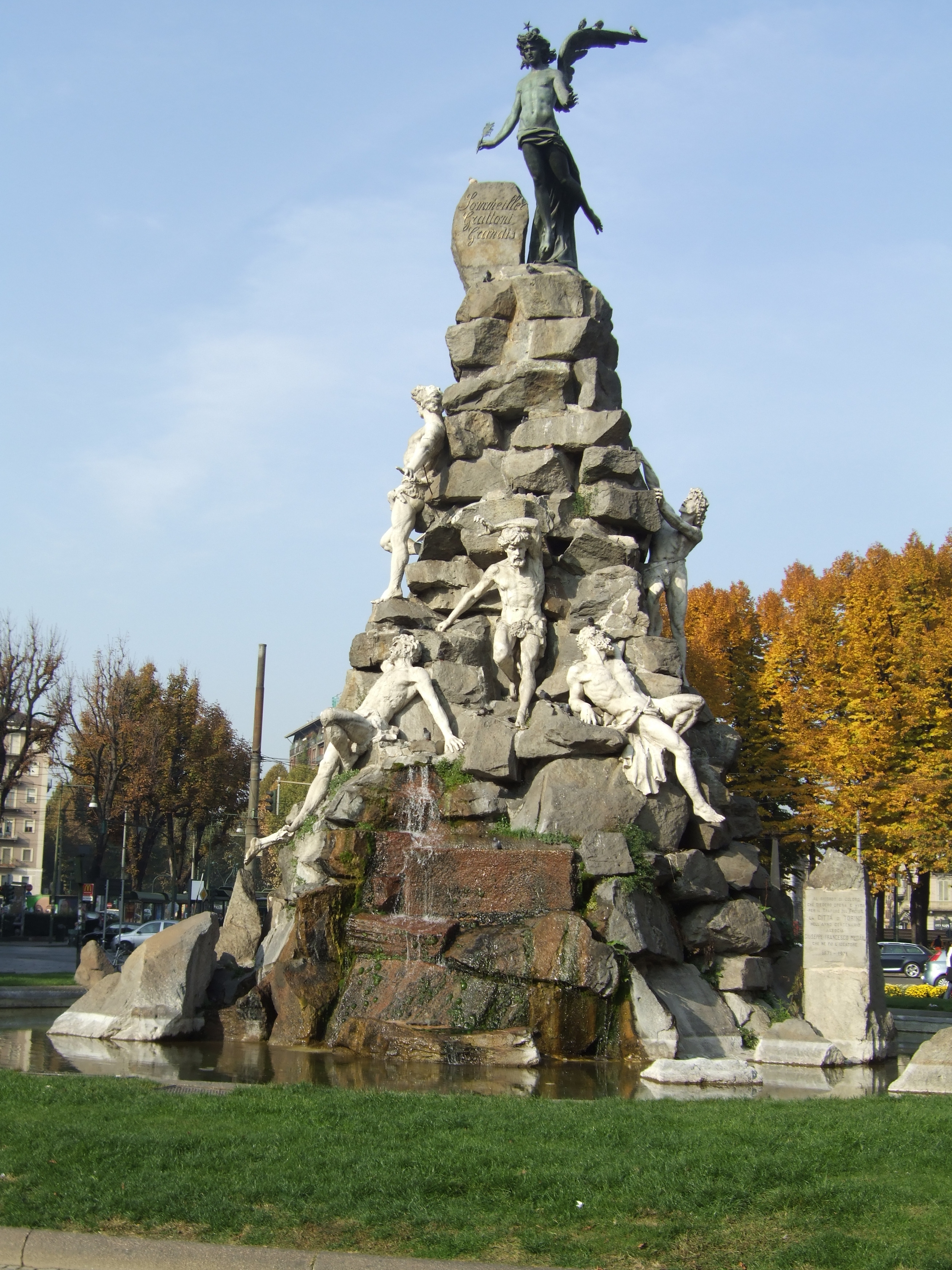 Memorial of Frejus Tunnel Works in Turin (Italy)